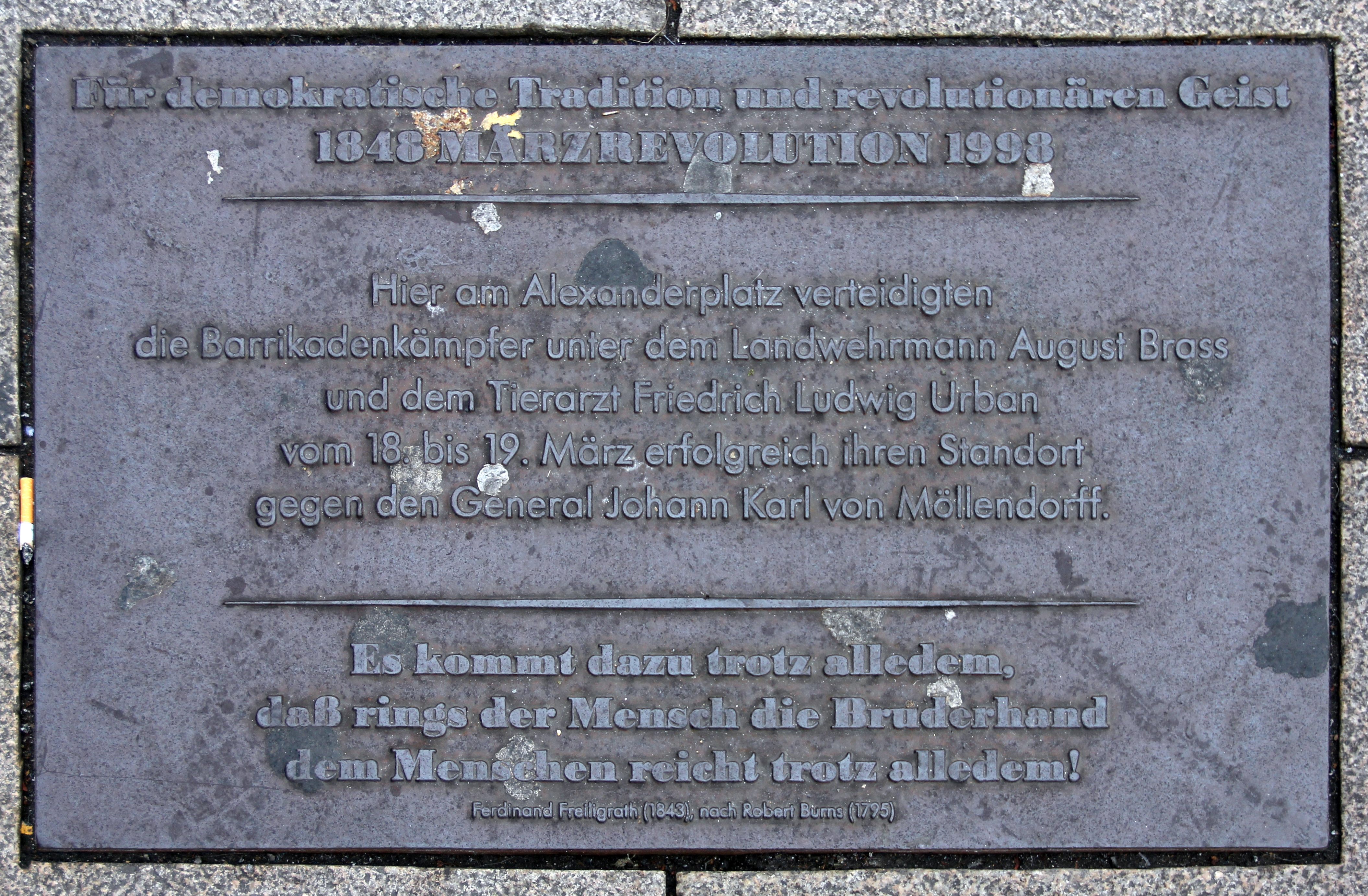 Memorial plaque, Deutsche Revolution 1848/1849, Alexanderplatz, Berlin-Mitte, Germany